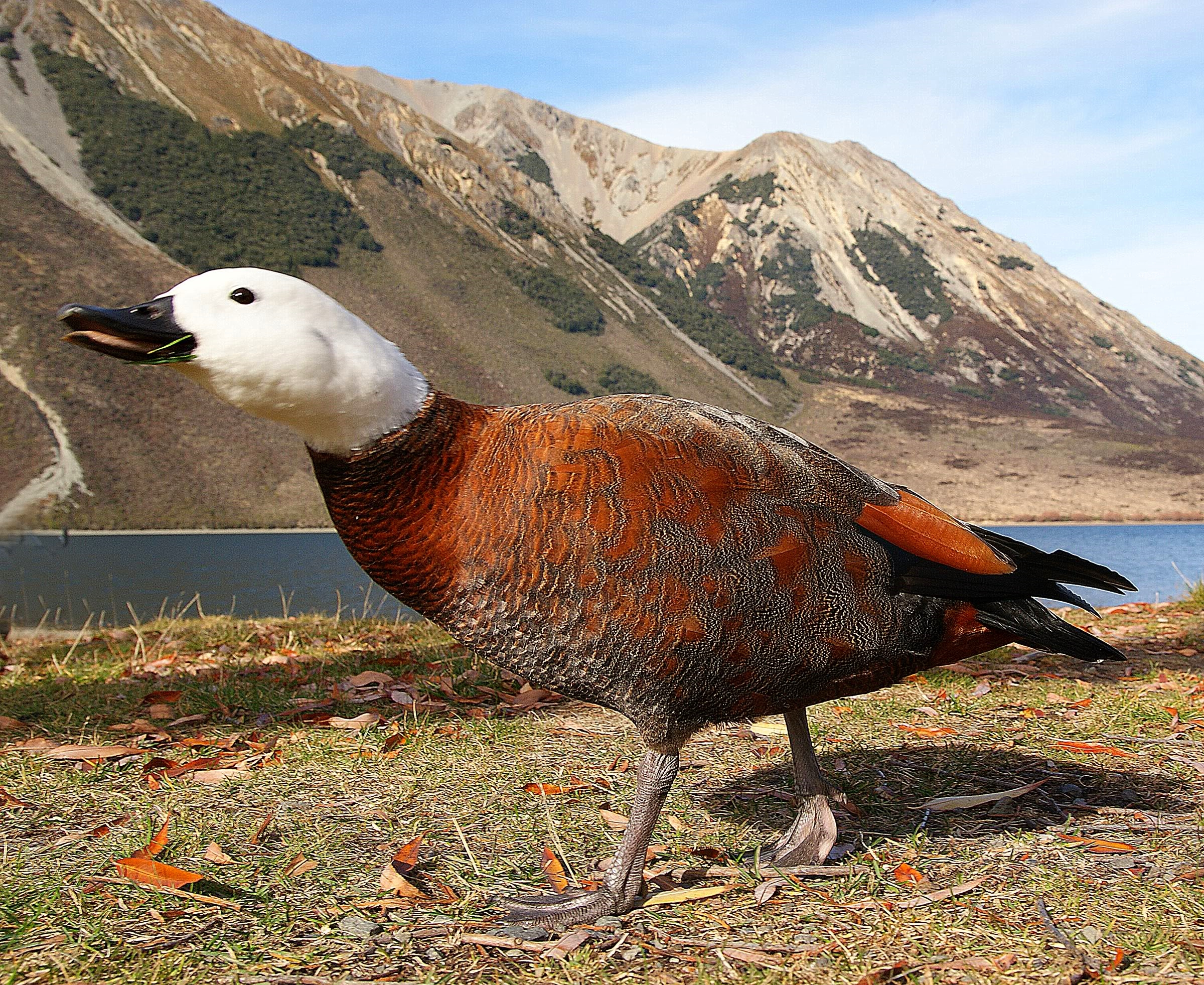 The Paradise Shelduck (Tadorna variegata) is a large goose-like duck endemic to New Zealand. It is a shelduck, a group of large goose-like birds which are part of the bird family Anatidae. The genus name Tadorna comes from Celtic roots and means "pied waterfowl". Known to the Māori as Pūtangitangi, but now commonly referred to as the "Paradise duck", it is a prized game bird. Both the male and female have striking plumage: the male has a black head and barred black body, the female a white head with a chestnut body.